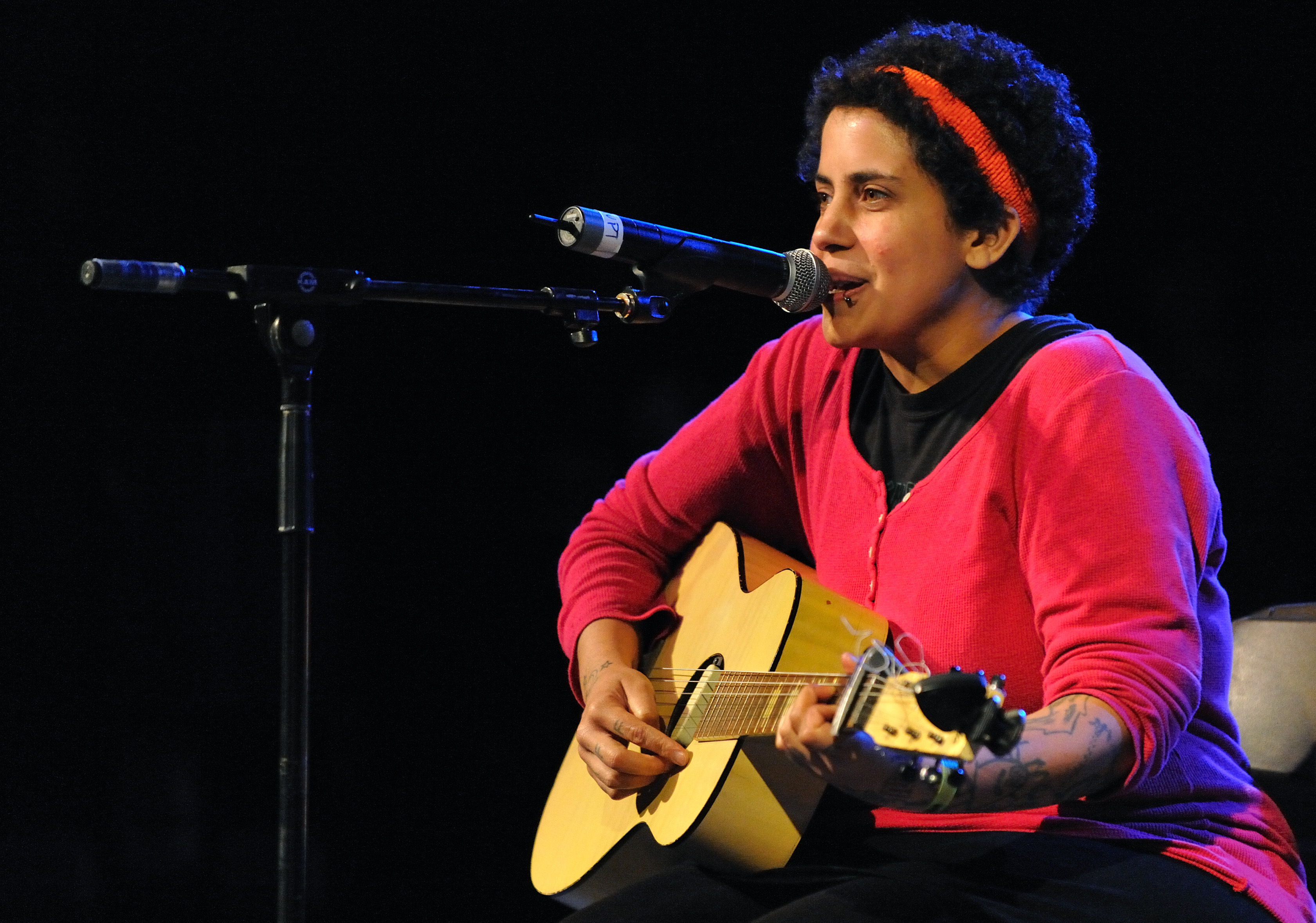 Kimya Dawson playing a solo set at Harvest of Hope Festival in St. Augustine, FL.